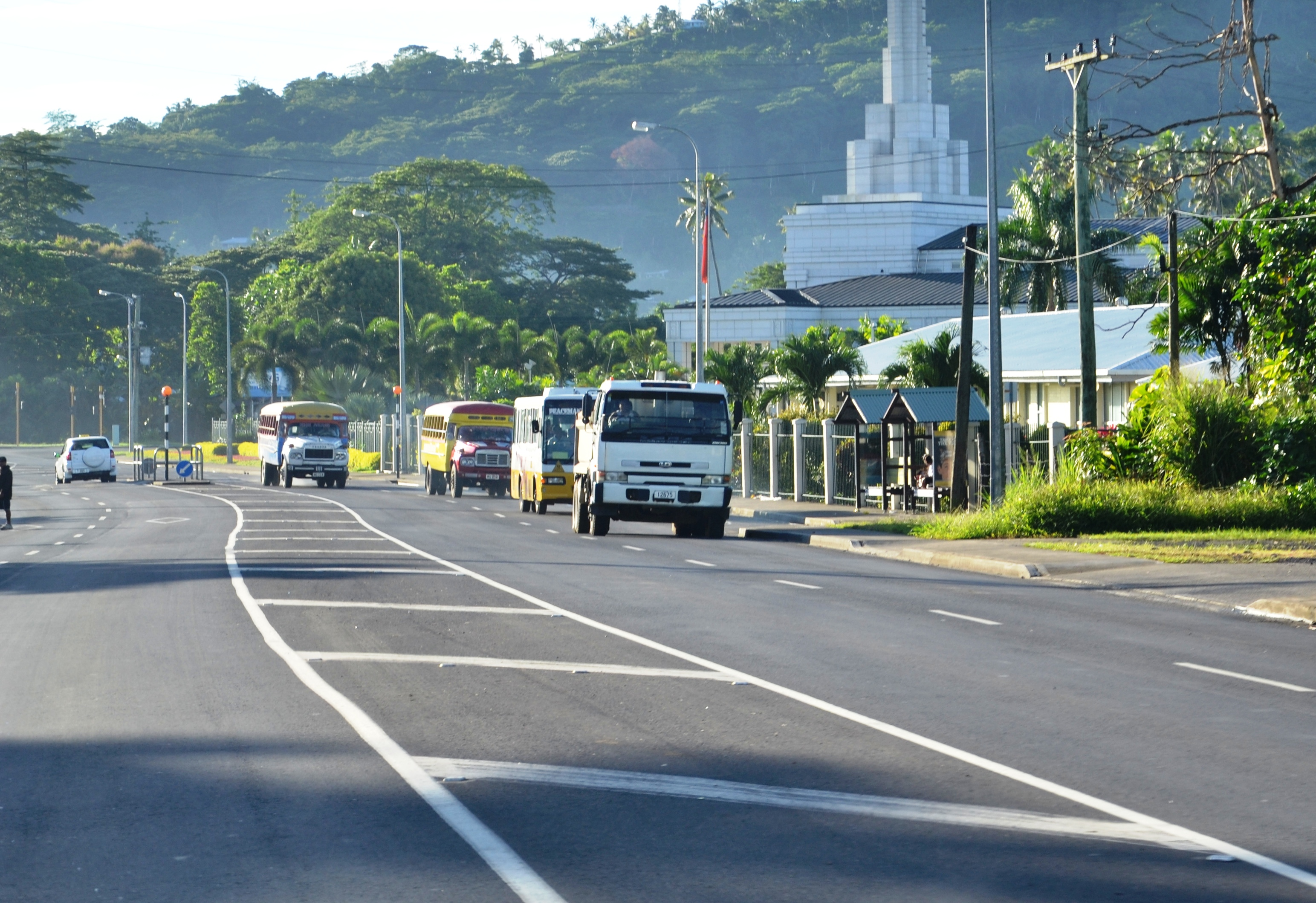 Rush hour in Apia